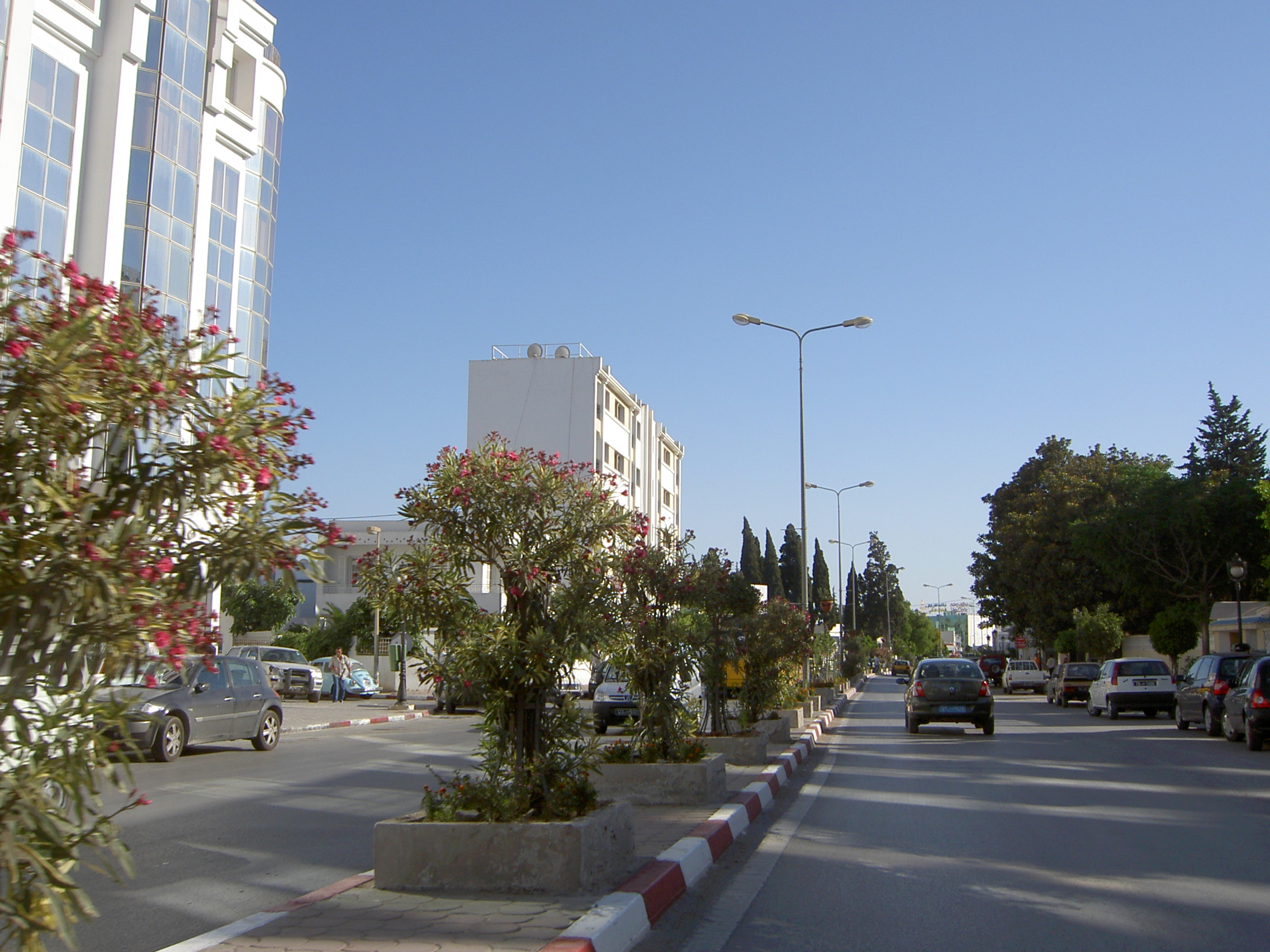 Ariana, Tunisia.